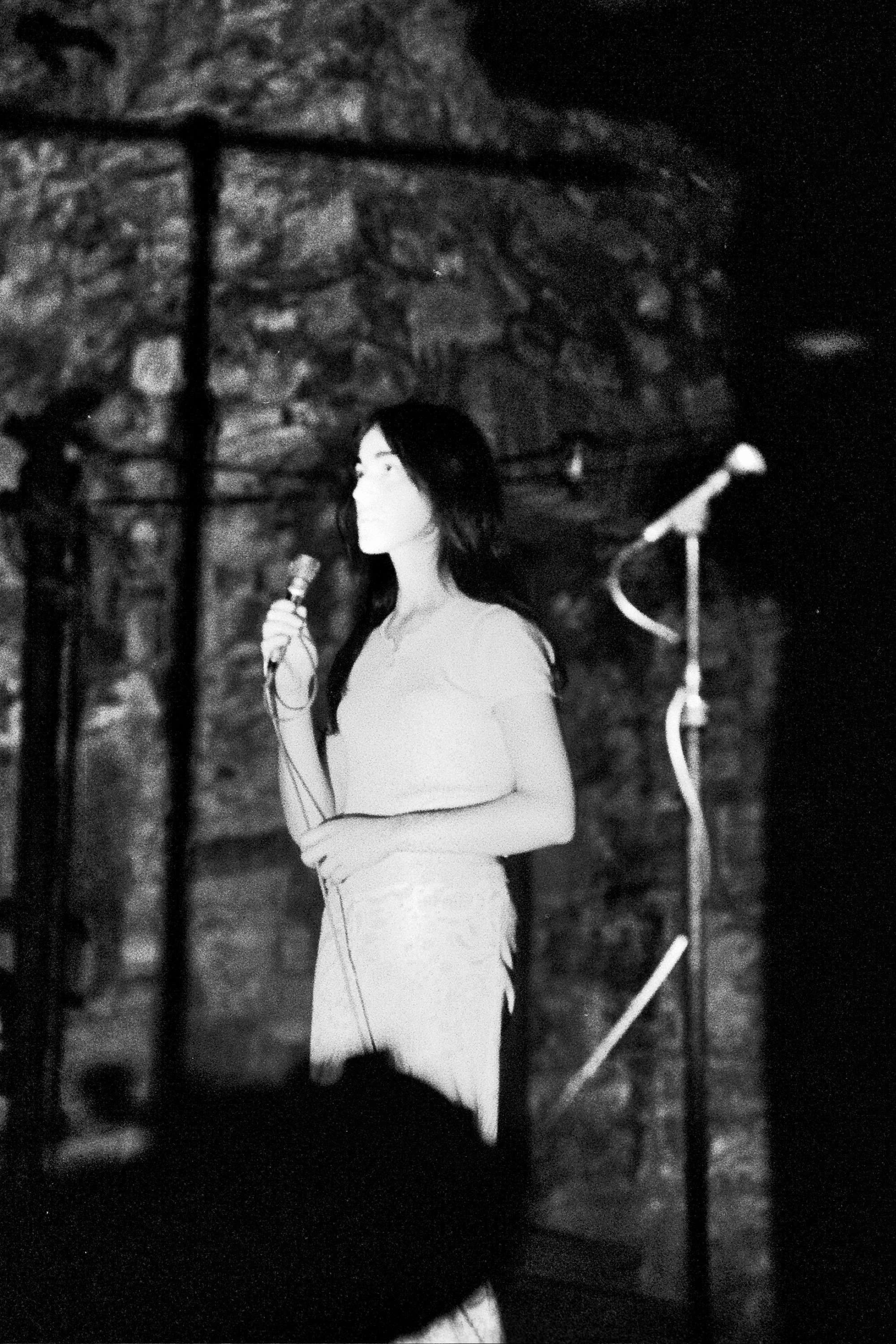 Lourdes Iriondo, basque singer, performing live in 1971.